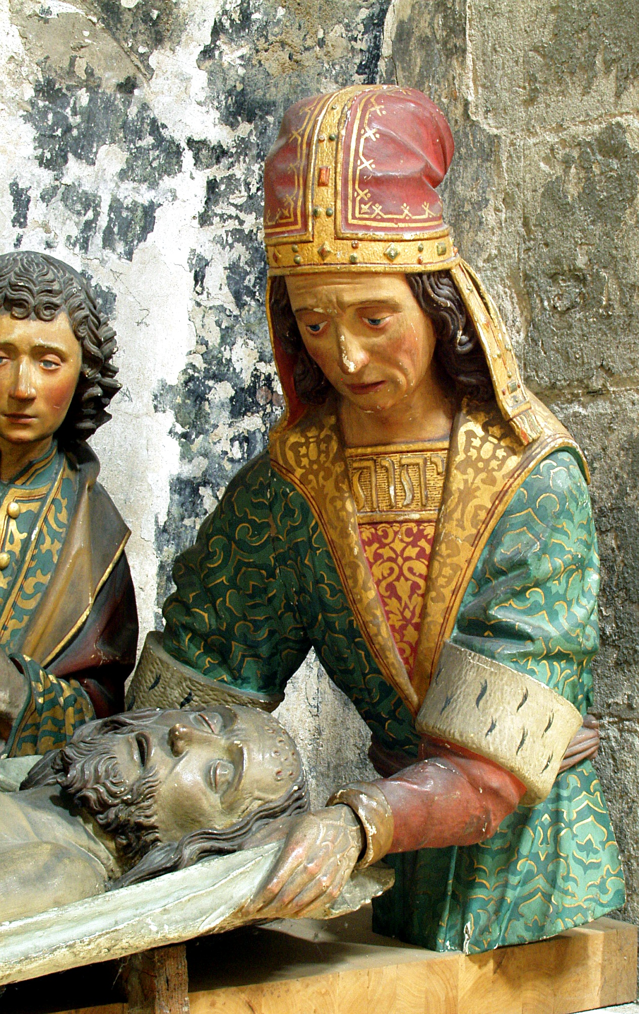 Joseph of Arimathea, in the church "Gross St. Martin", Cologne, Germany